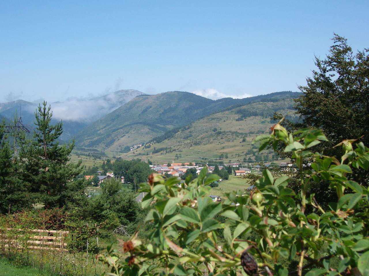 Parts of Camurac seen from the local camp site